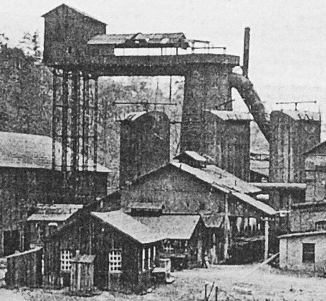 Picture of Nittany or Valentine Furnace (labeled Nittany Iron Works) in Spring Township, Centre County, Pennsylvania, US. View is to the northwest. As identified from contemporary Sanborn Fire Insurance maps, the building on the left is the stock house, connected by a hoist to the furnace. In front of the furnace are three stoves. A boiler house sits in front of the stoves, and the brick engine house is to its right, in front of the tall smokestack. A small part of the cast house roof is visible behind furnace and stoves.